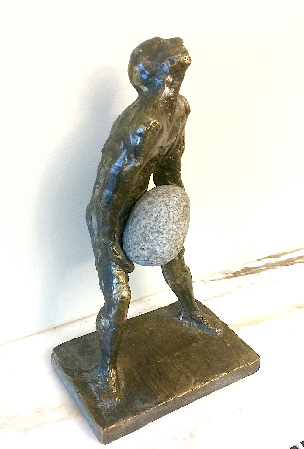 Sculpture of E.Olechowski